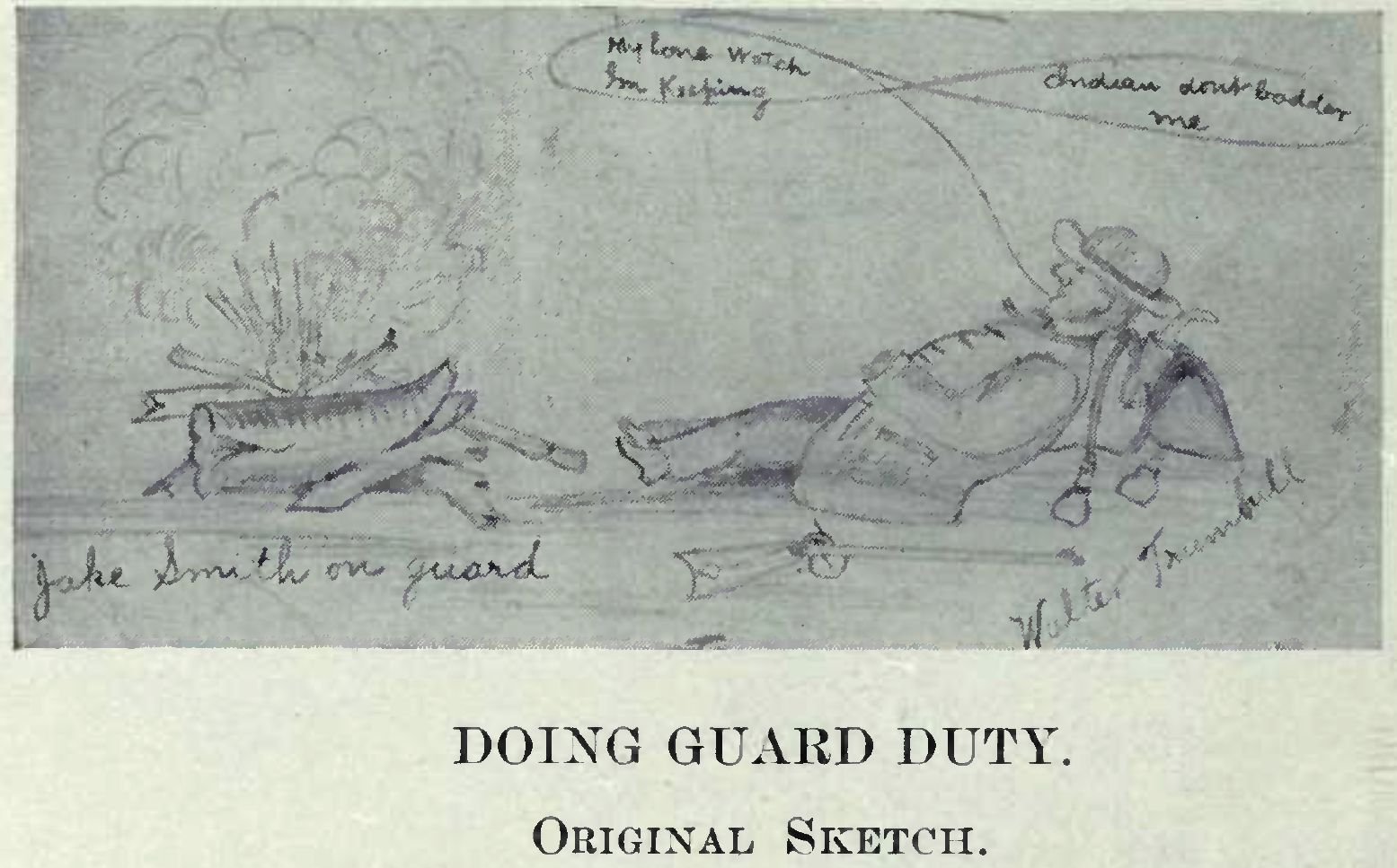 Doing Guard Duty, Original Sketch by Walter Trumbull, 1870